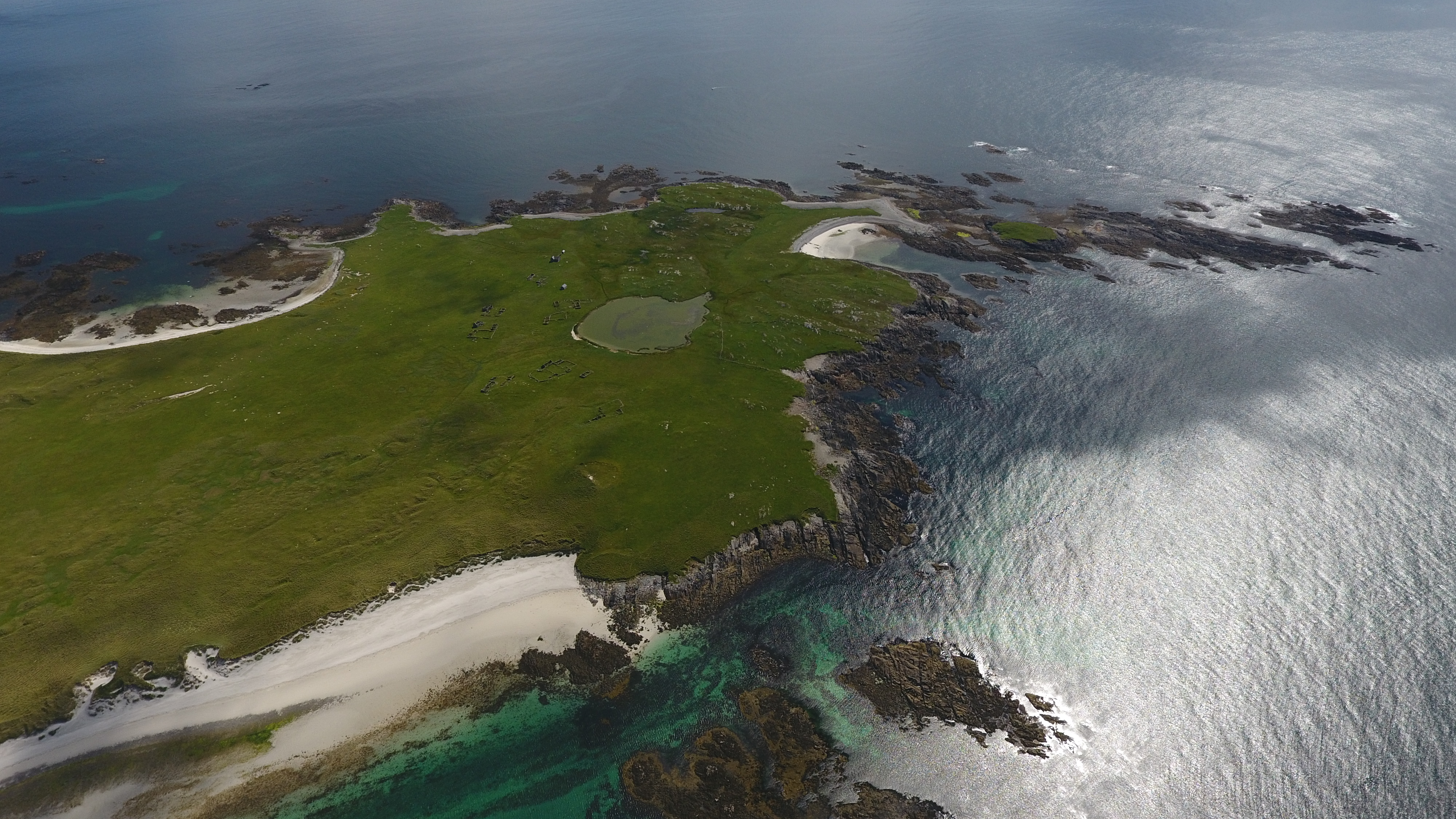 Drone photo of the Monach Islands